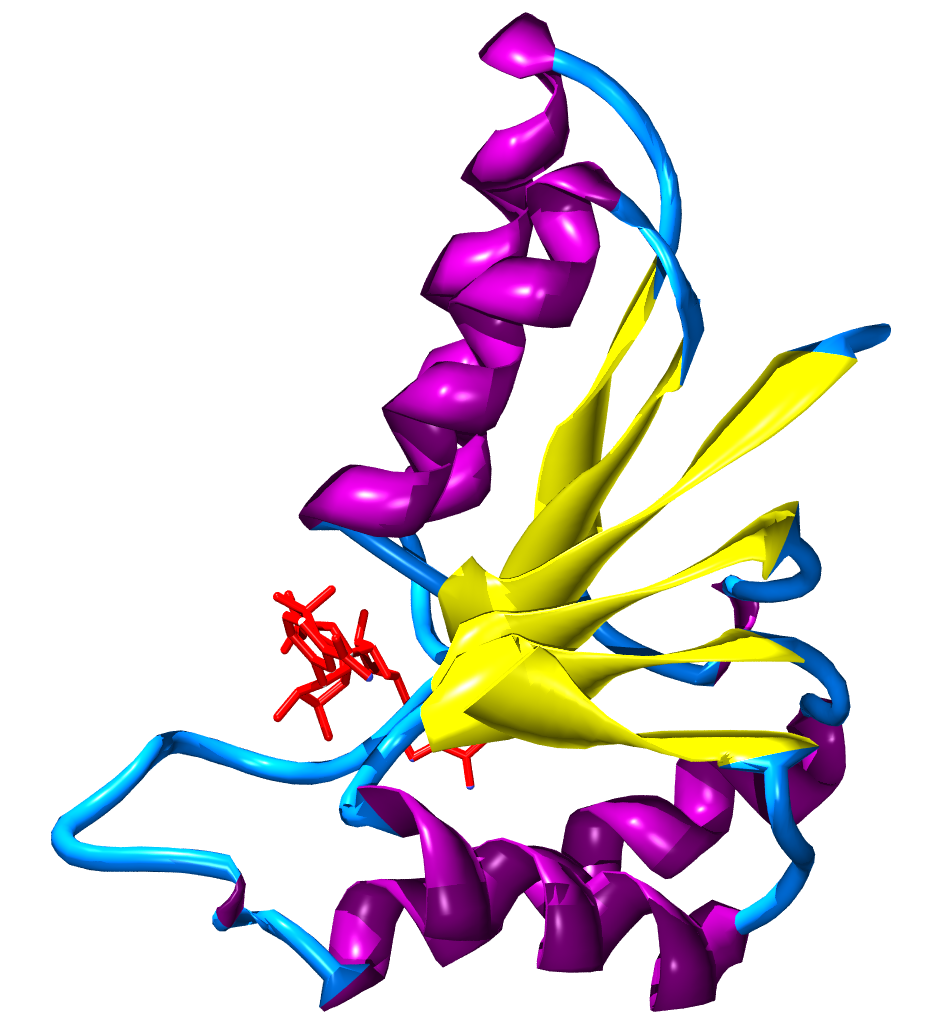 Structure of the Rossmann fold found in Cryptosporidium parvum lactate dehydrogenase, NAD+ bound, shown in red. Created from PDB 2FM3